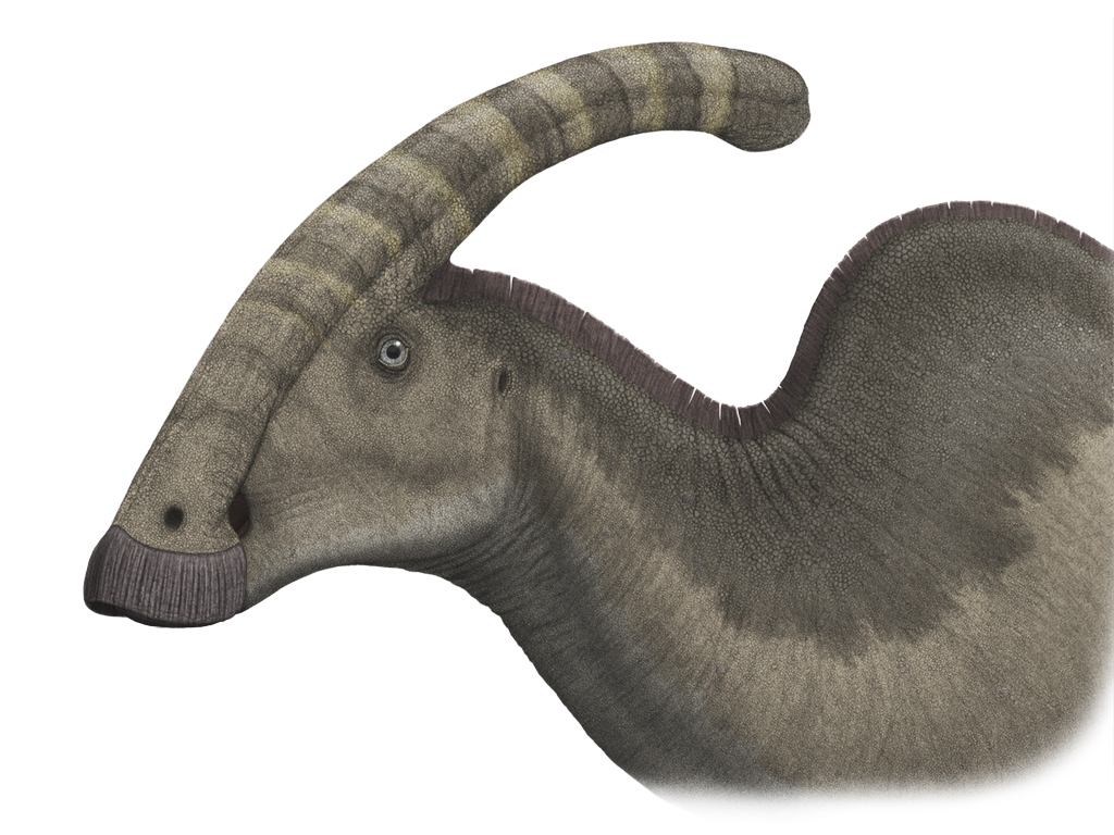 Parasaurolophus walkeri restoration, • Images of Parasaurolophus skulls were used as reference. • Skin impressions are known in Parasaruolophus. It's known to had 'tubercilated' skin similar to other hadrosaurs. (Parks 1922, Parasaruolophus Walkeri, A new Genus of crested Trachont Dinosaur.) (Farke et al. 2013 Ontogeny in the tube-crested dinosaur Parasaurolophus (Hadrosauridae) and heterochrony in hadrosaurids.) Known Parasaurolophus skin impressions aren't extensive and don't show all the details. Some of the skin details shown here are speculative but based on those described for another hadrosaur fossil that preserves more extensive skin impressions. [1] The frill running down the top of the back is not known in Parasaurolophus. Frills/dermal ridges are known in a few hadrosarus. The one shown here is based loosely on the close relative Corythosaurus (Kennith Karpenter, 1999, Eggs, Nests, and Baby Dinosaurs, A Look at Dinosaur Reproduction.) • The colours and/or patterns, as with most restorations of prehistoric creatures, are speculative. References ↑ Anderson, Brian G.; Barrick, Reese E.; Droser, Mary L.; Stadtman, Kennith L. (1999) "Hadrosaur Skin Impressions from the Upper Cretaceous Nelsen Formation, Book Cliffs, Utah: Morphology and Paleoenvironmental Context" in Vertebrate Paleontology in Utah, New York: Utah Geological Survey, pp. 295–302 ISBN: 1557916349, 9781557916341. NOTE: I often update my images. If you want to have any of my images on a website, please (if possible) don’t host/save it to the website server. I’d prefer it if the image's Wikimedia URL is used. This means that if I update an image, it will be updated on the site as well. Thanks.